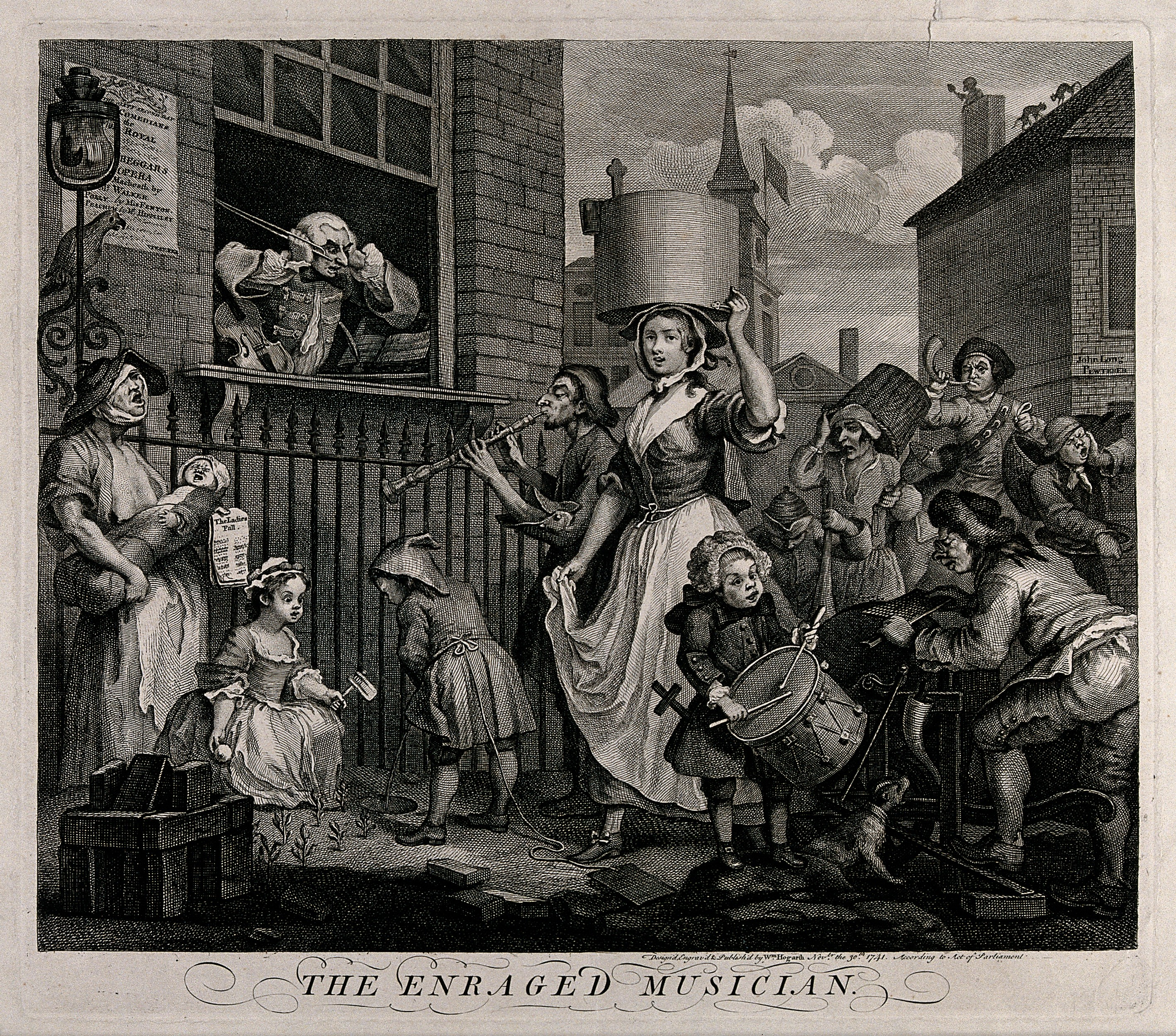 The enraged musician: a street crowd with a ballad singer is creating such a noise that the musician in the window has to put his hands over his ears. Engraving by W. Hogarth. Iconographic Collections Keywords: William Hogarth